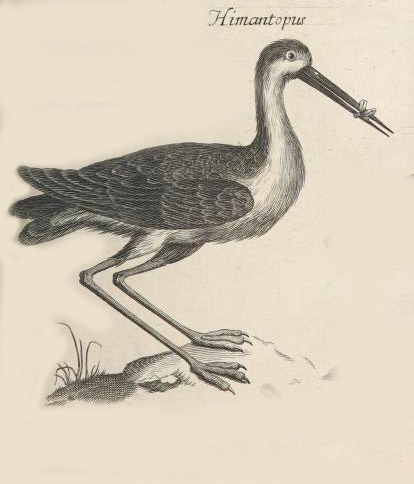 Black-winged Stilt, 'Himantopus himantopus adapted from Plate LIIII of Francis Willughby's Ornithologiae libri tres1776, where captioned "Himantopus"